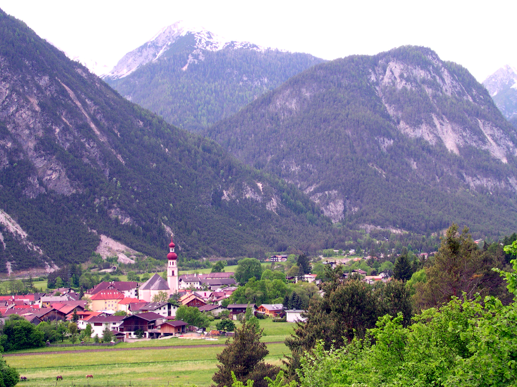 Centre of the village of Nassereith (Austria) from East